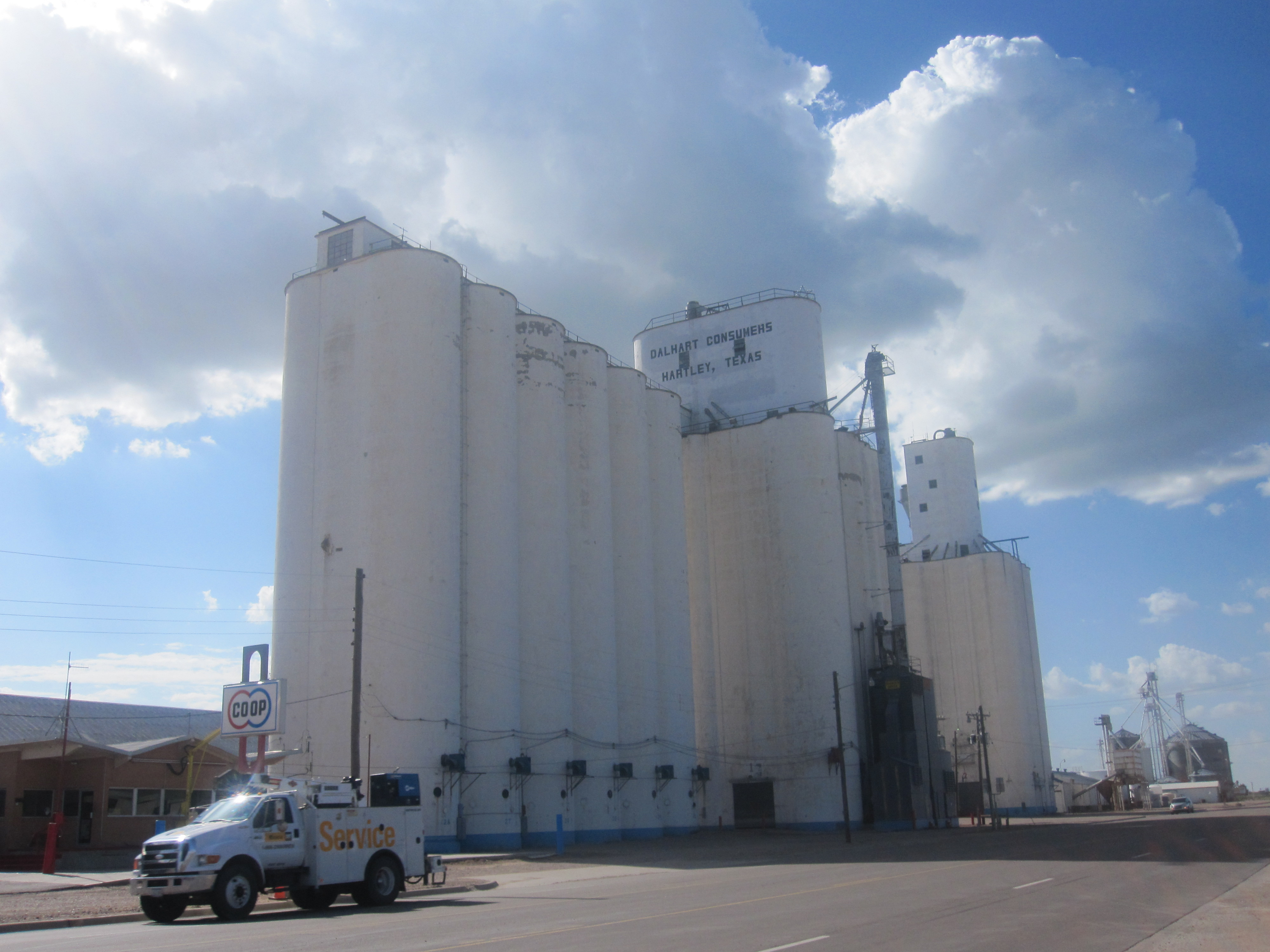 I took photo with Canon camera in Dalhart, TX.